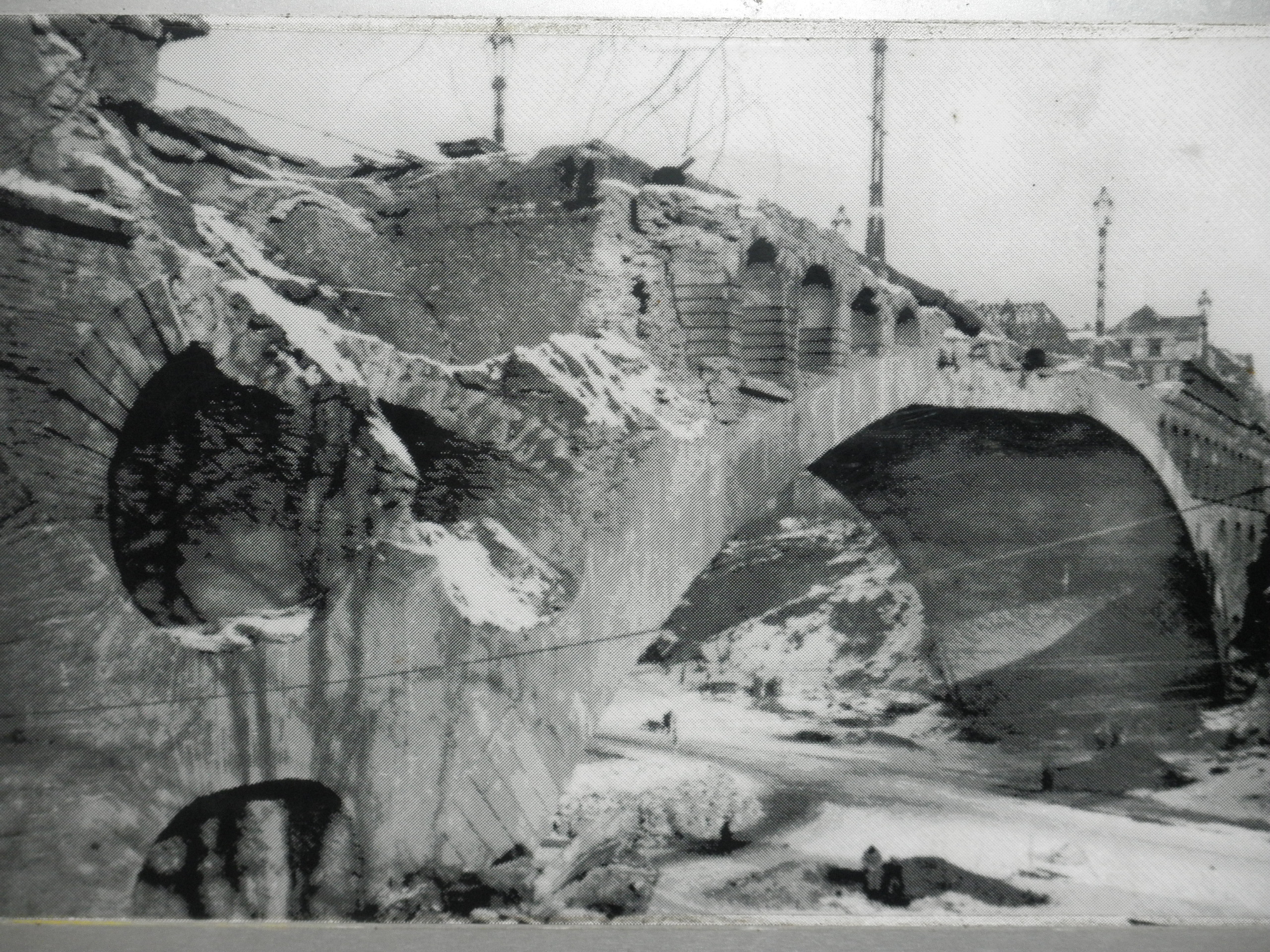 Bridge Friedensbrücke 1945 in Plauen in Saxony